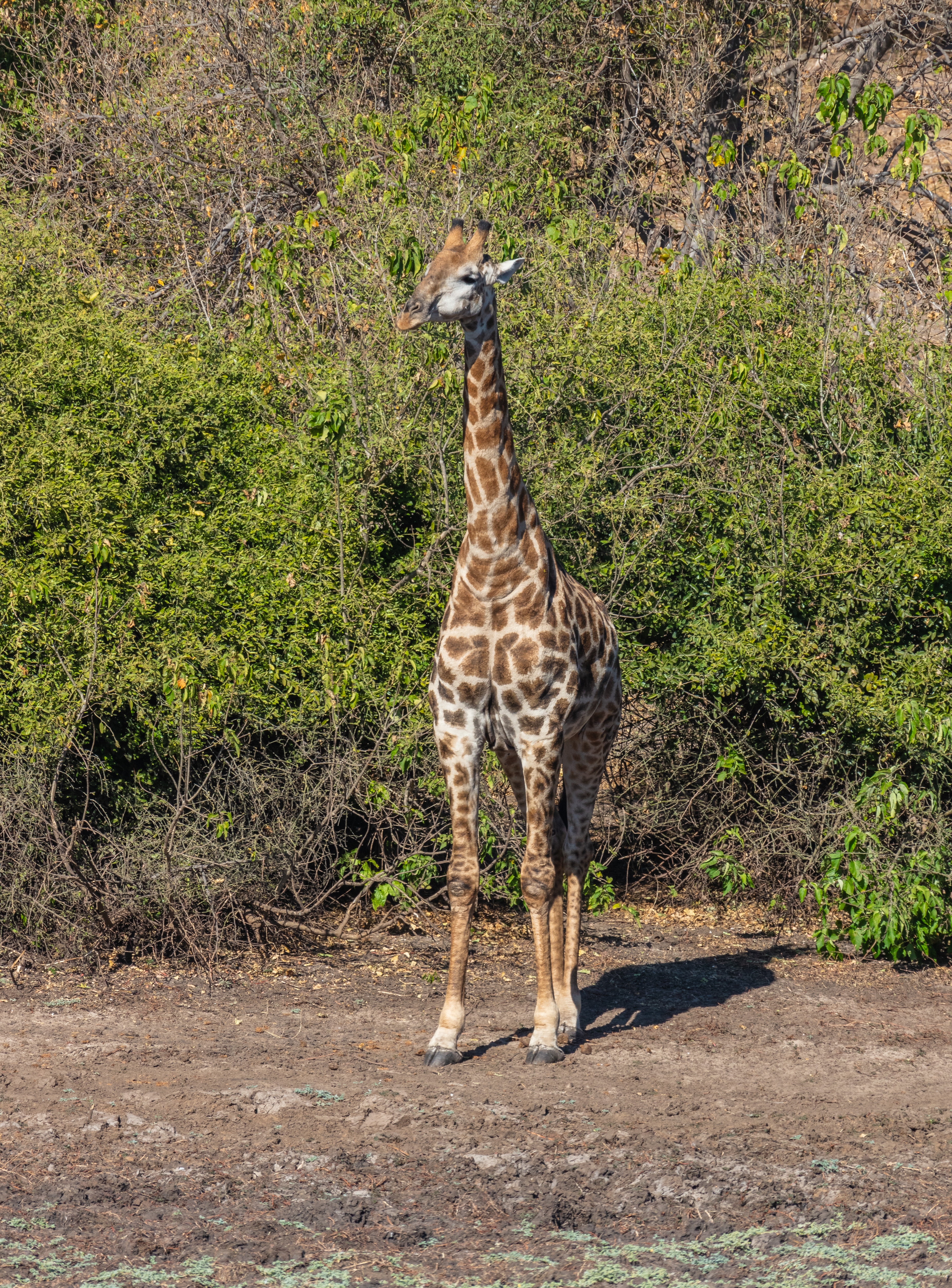 Northern giraffe (Giraffa camelopardalis), Chobe National Park, Botswana